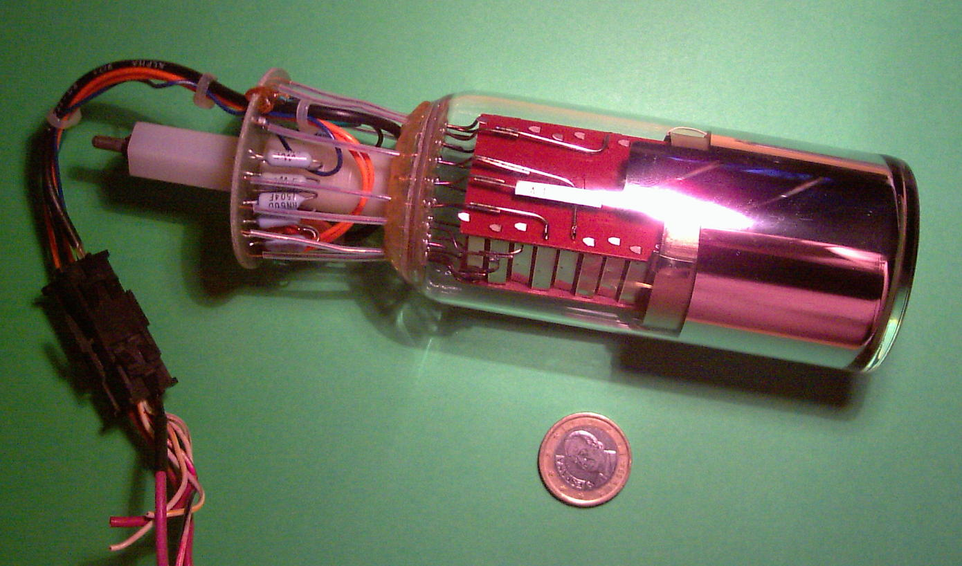 Photomultiplier